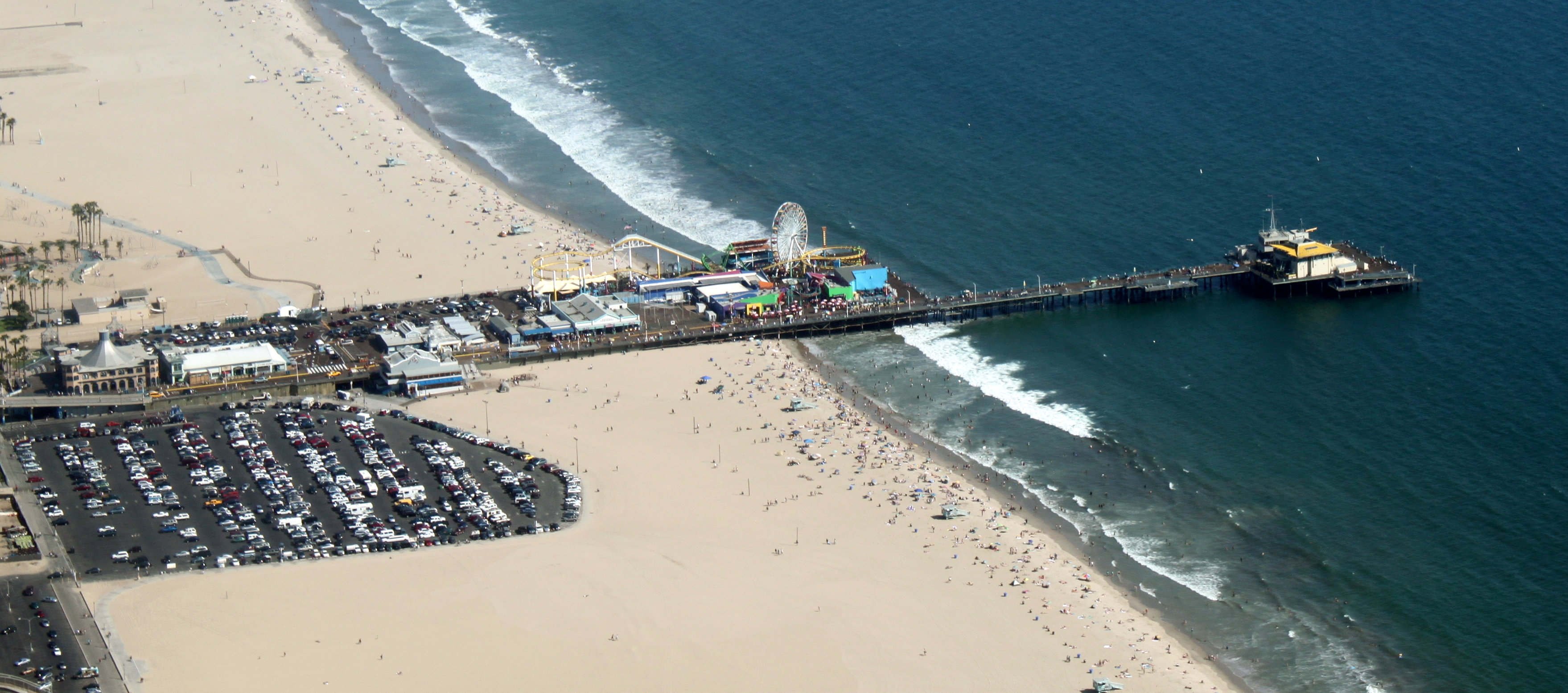 The Santa Monica Pier seen from an altitude of about 2,000', looking south.